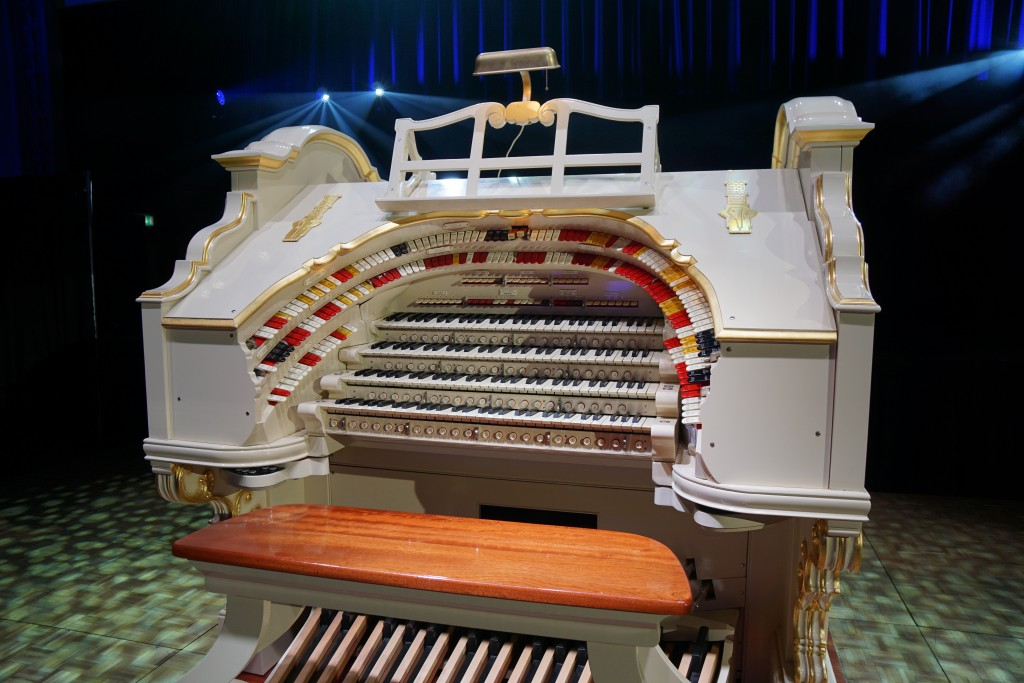 The largest Wurlitzer ever imported to Europe from the US. Now fully restored and installed in Troxy, East London. Originally installed in the Trocadero, Elephant & Castle, London. 4 Manuals, 25 Ranks, Yamaha Piano